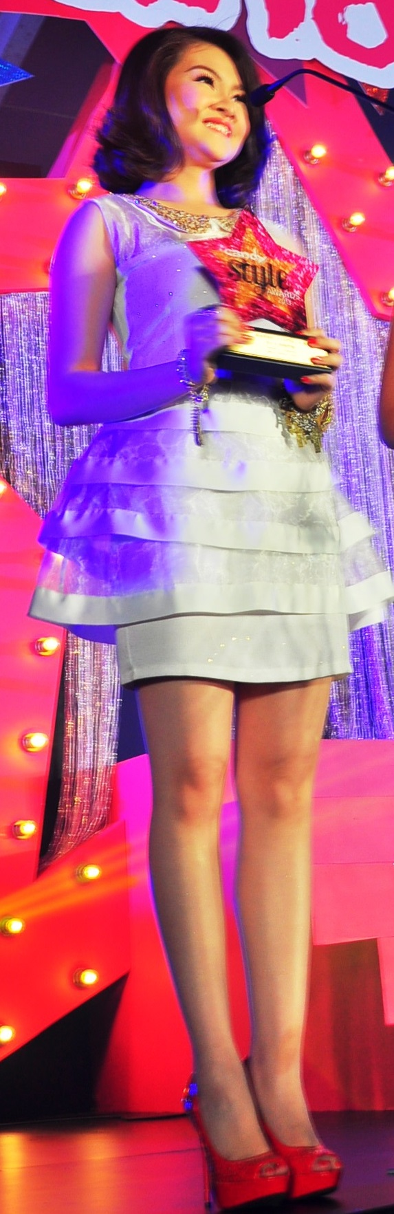 Philippine actress Barbie Forteza receiving award at the 2013 Candy Style Awards.